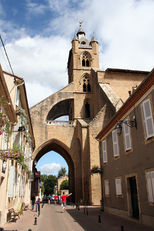 Mirande, Gers, France (street and church).